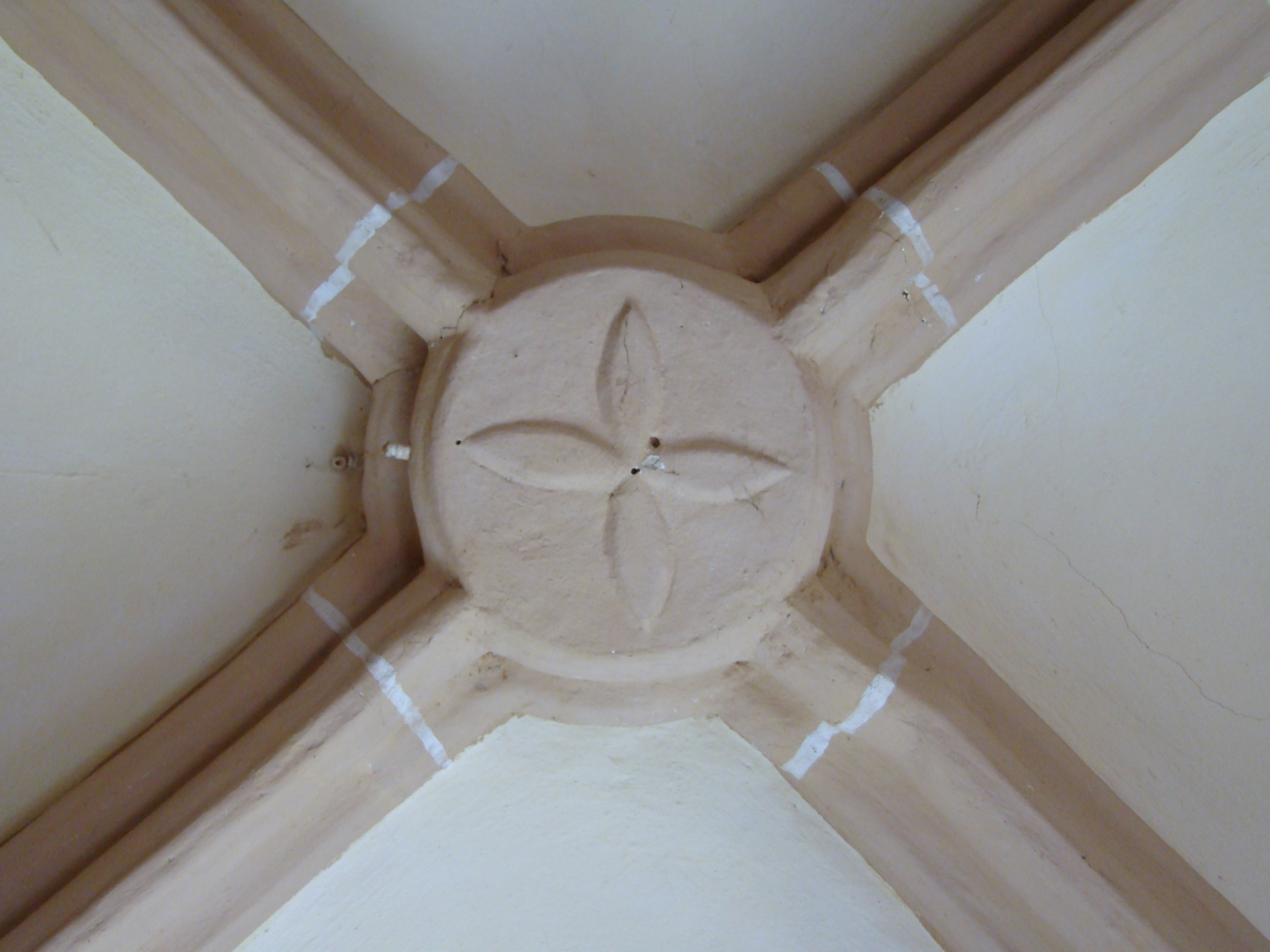 Lutheran church in Reghin, Mureş county, Romania